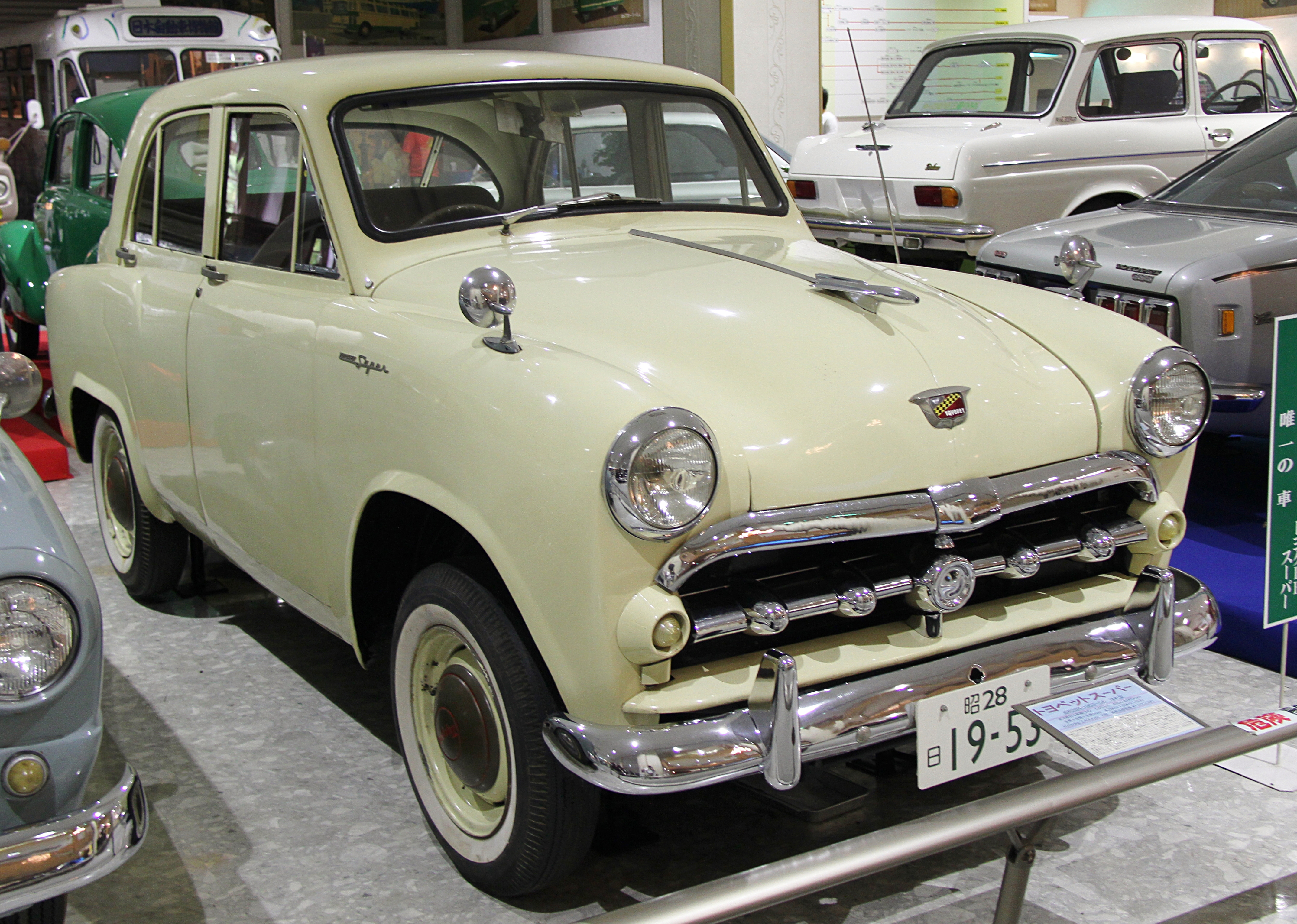 Toyopet Super